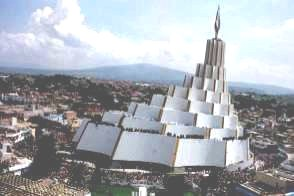 Flagship temple of La Luz del Mundo at Glorieta Central No. 1, Hermosa Provincia, Guadalajara, Jalisco, México.